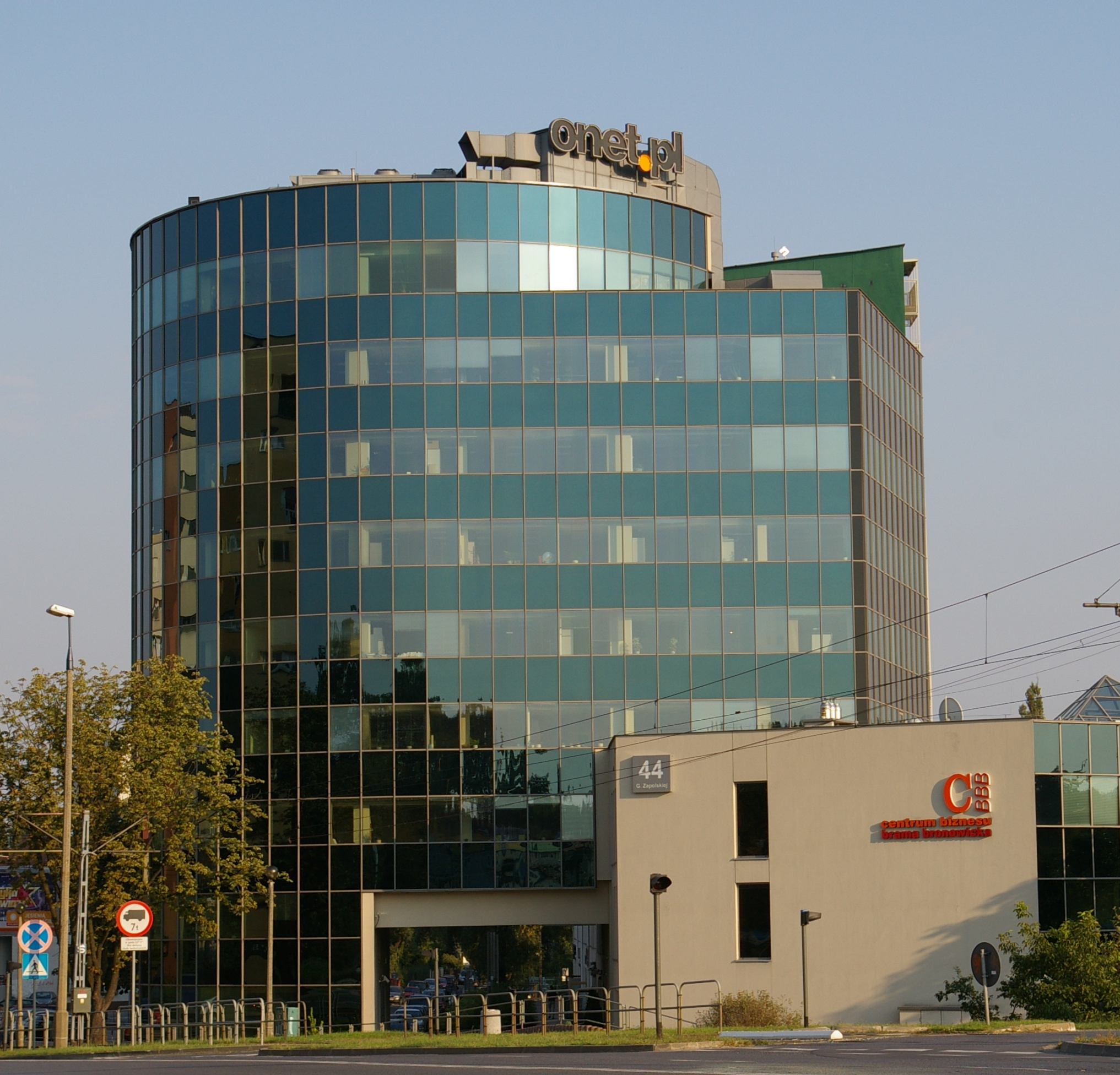 Grupa Onet.pl S.A. headquarter in Kraków, Poland